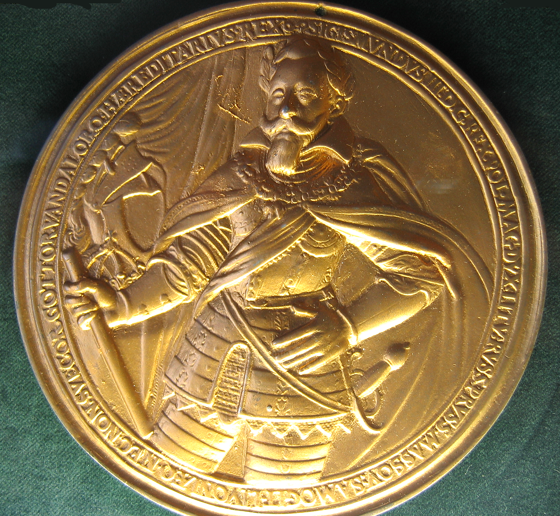 medal for honour of Sigismund III, commemorating capture of Smolensk by Polish forces 1611